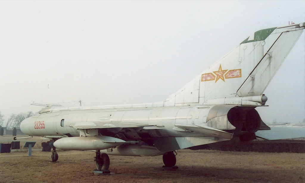 Shenyang J-8 (Finback-A)